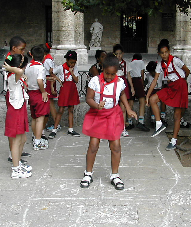 Havana, Cuba School girls playing Hopscotch in Old Havana on an afternoon in May 2002. Flickr Explore: 27 January 2007, #309 (highest)